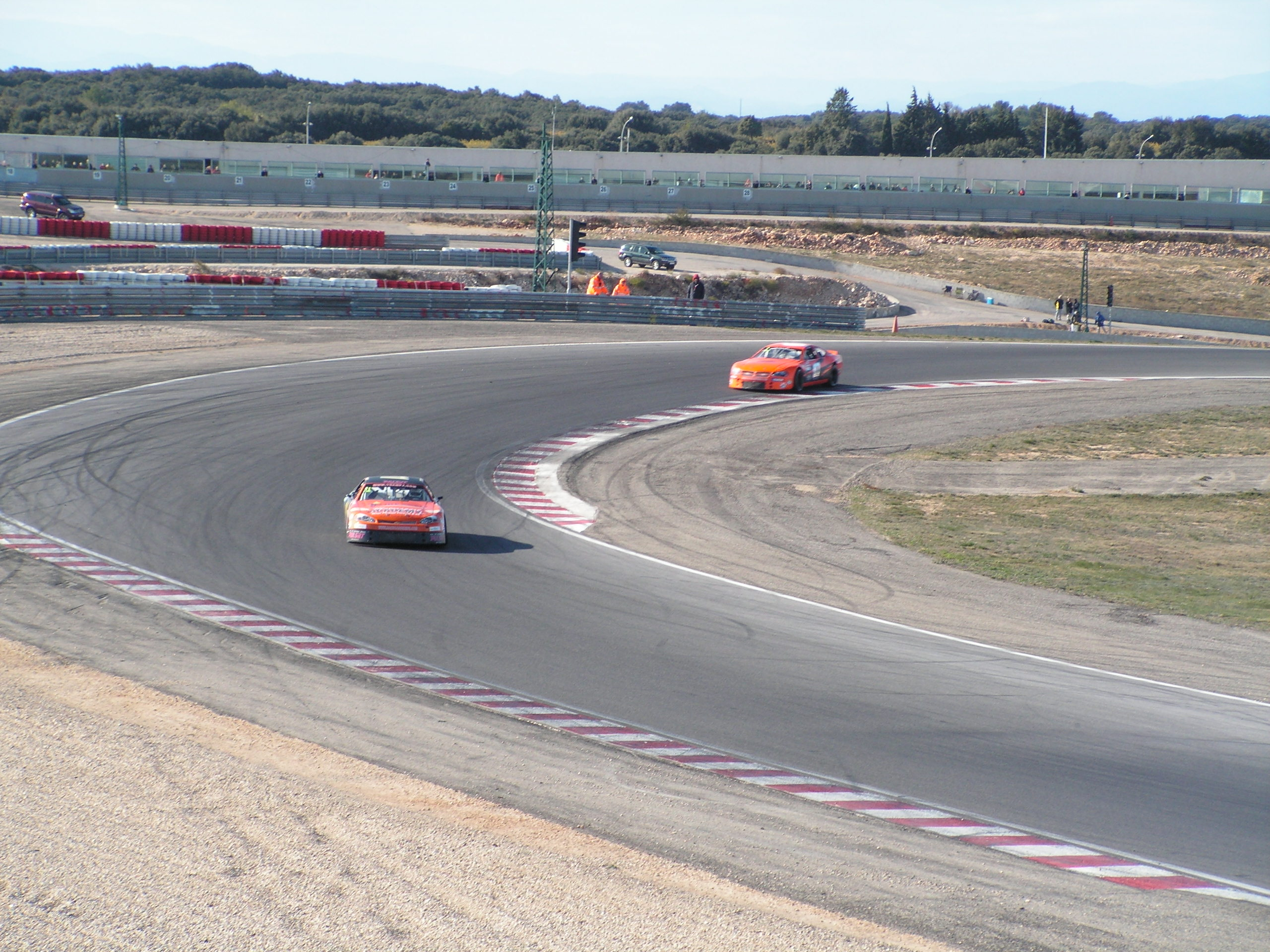 turn "Le Gauche", track of Lédenon